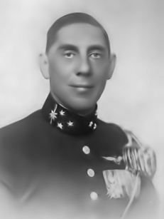 W.C.L. Versteegh, Directeur van de Koninklijke Nederlands-Indische Luchtvaart Maatschappij (KNILM ). Luchtvaartpionier. Van 1919-1935 commandant vliegschool Soesterberg. Na 1935 naar de KNILM. Hier is hij afgebeeld als majoor in uniform [dus voor 1936] 1919-1935